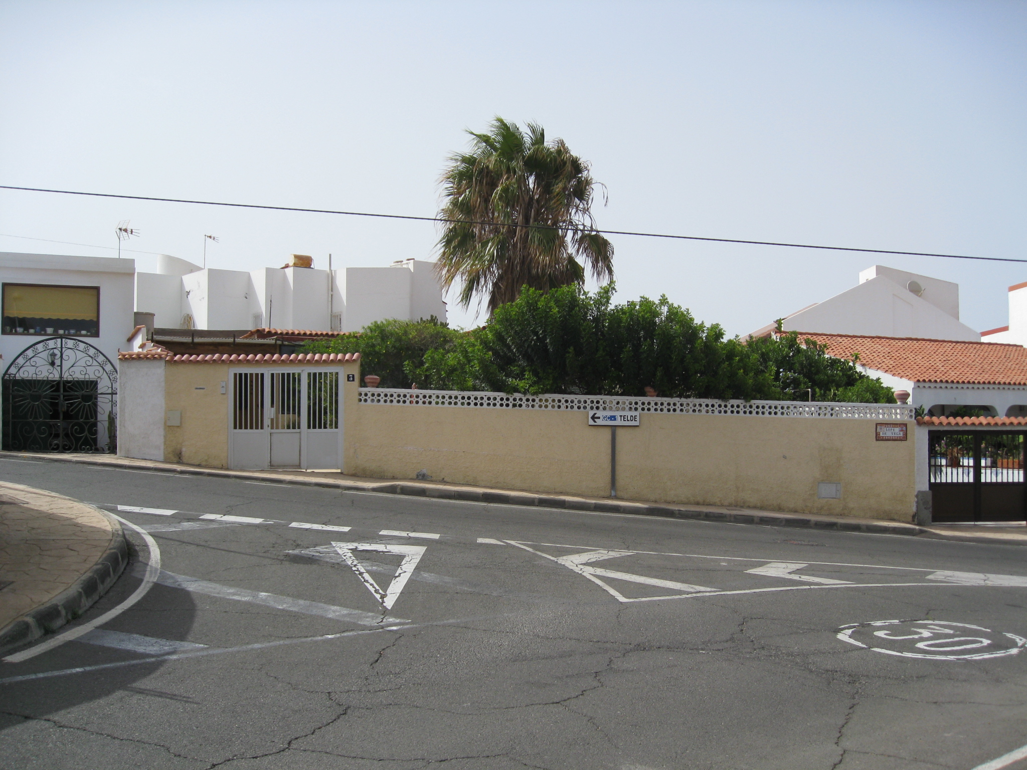 The former residence of writer Sanmao at Calle Lope de Vega 3 in Telde, Gran Canaria, Canary Islands, Spain.